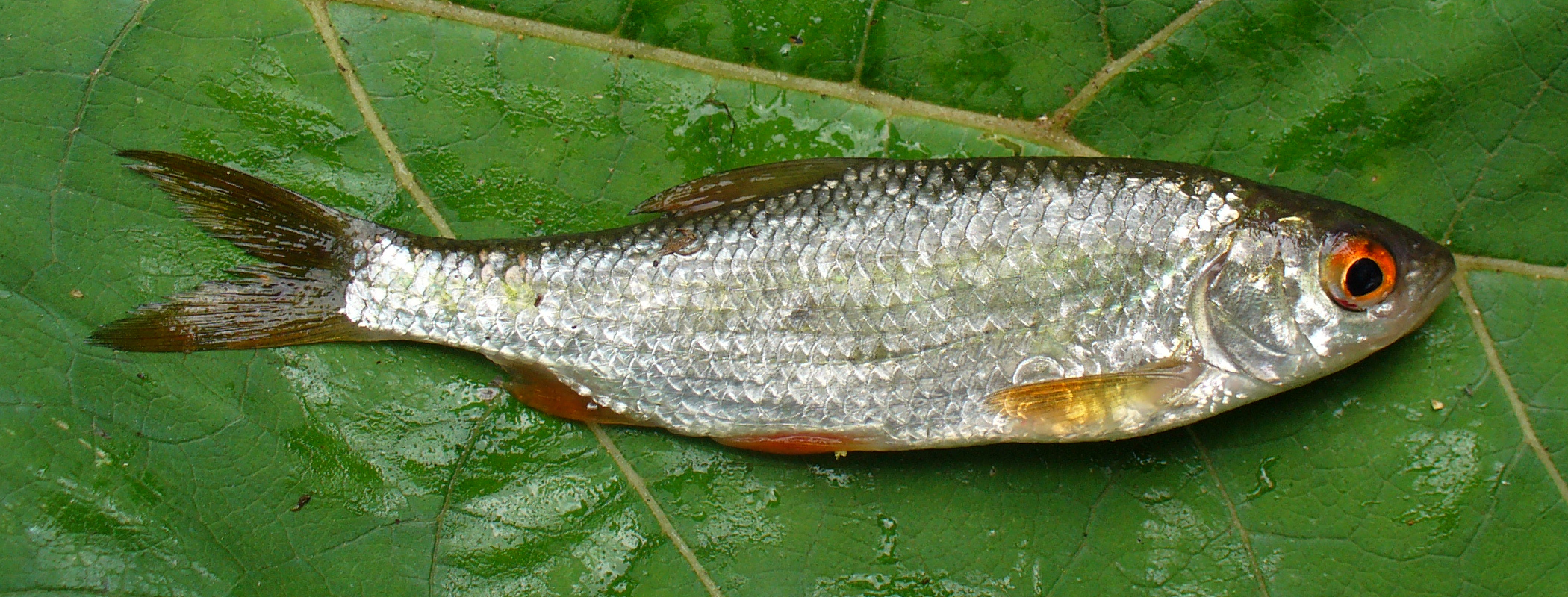 The Common Roach (Rutilus rutilus). Ukraine, the fish from the Southern Bug river.